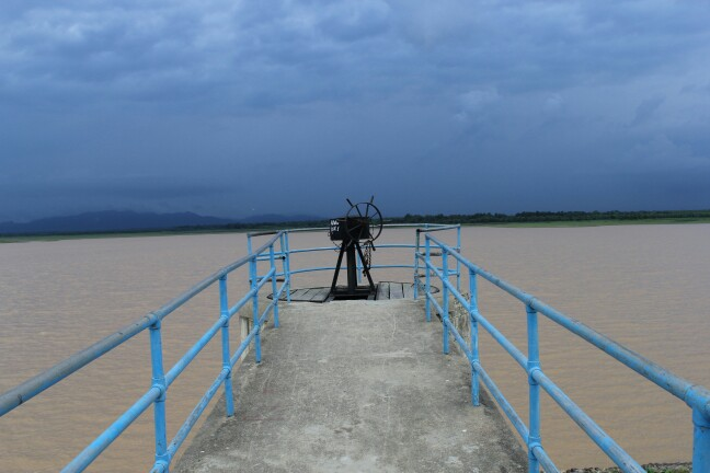 The picture of Pili Dam Rehar. Clicked by Prashant Sehgal.